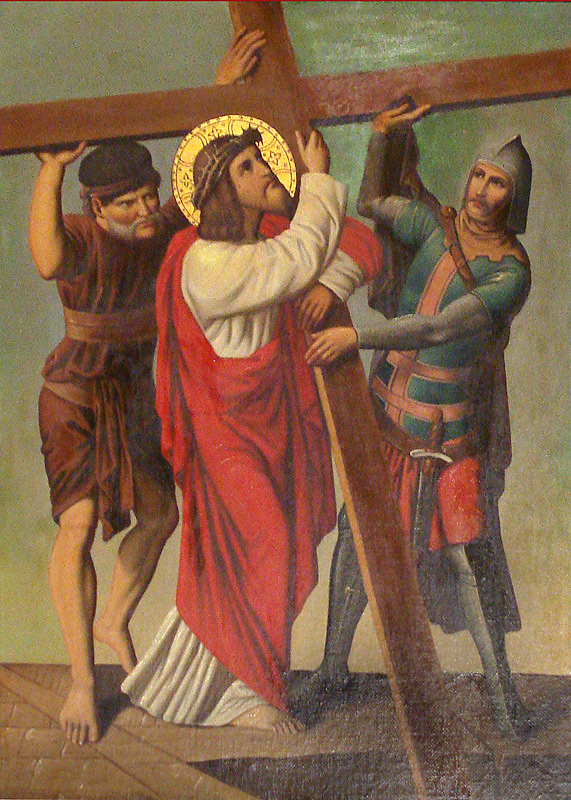 Jesus helped by Simon of Cyrene, part of a series depicting the stations of the Cross. Chapel Nosso Senhor dos Passos, Santa Casa de Misericórdia of Porto Alegre, Brazil. Oil on canvas, XIXth century, unknown author.